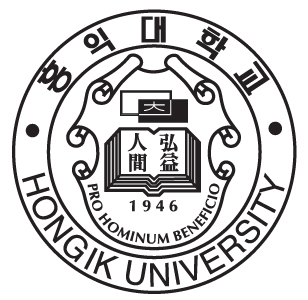 logo of hongik university